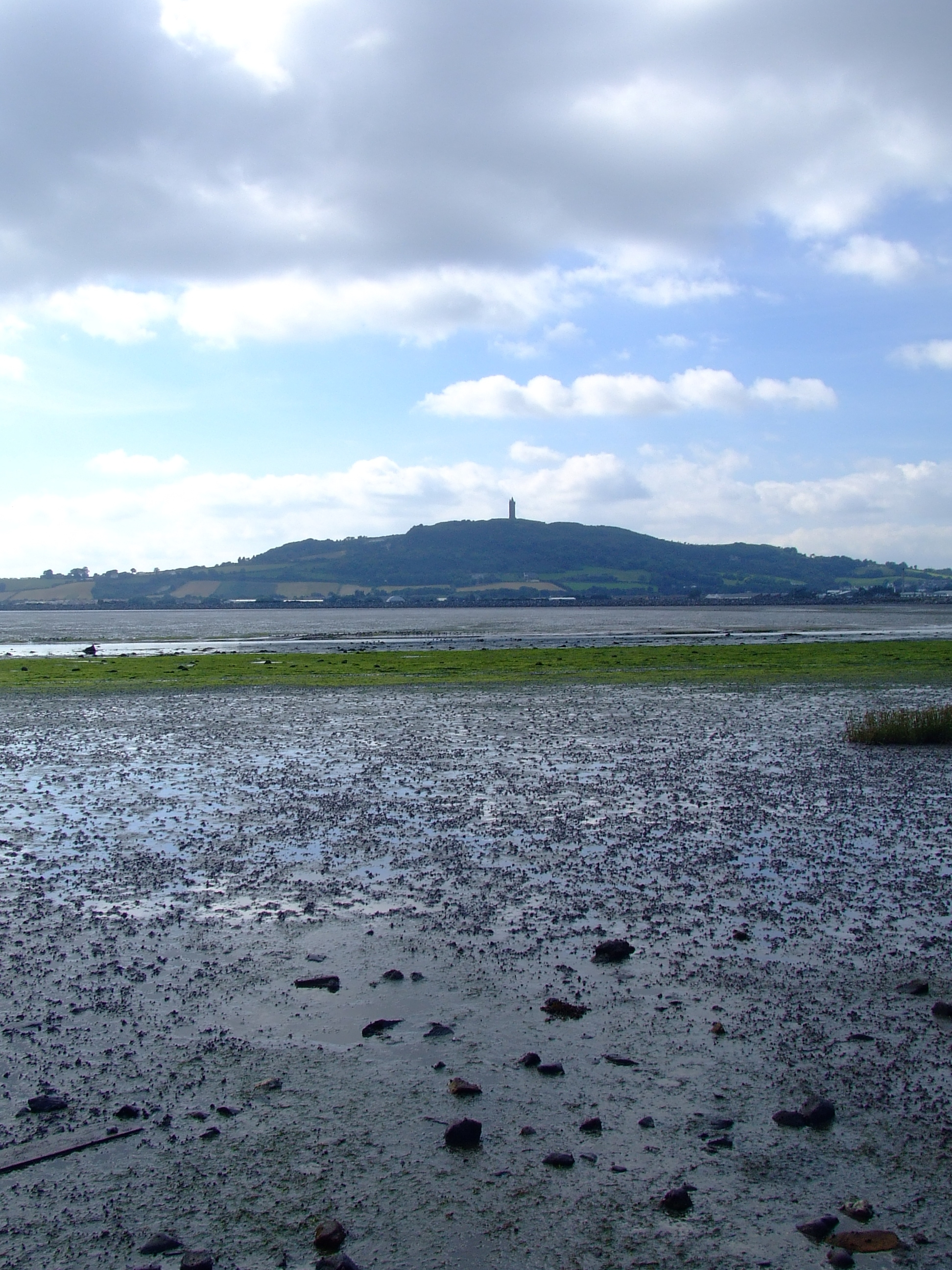 Scrobo Tower, from across Strangford Lough